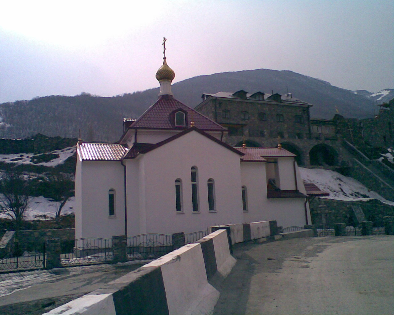 Monastery in North Ossetia.